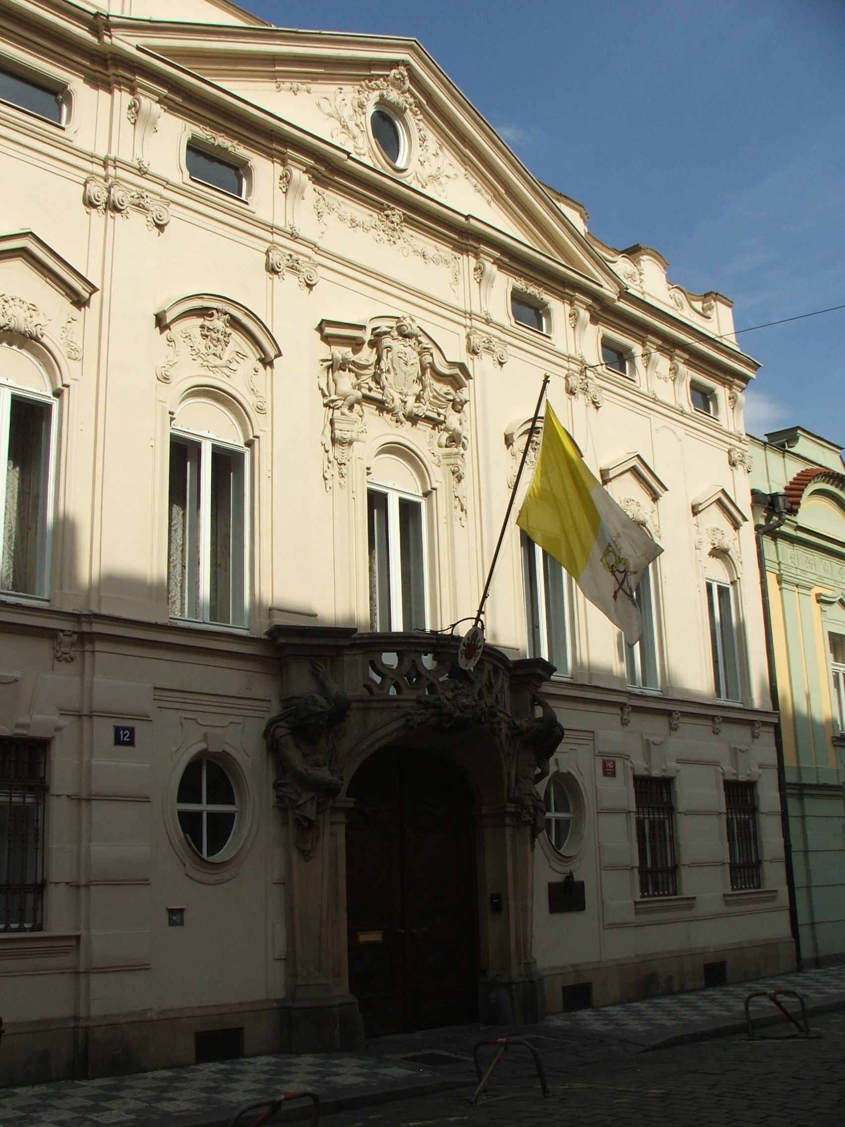 Apostolic nunciature of Holy See in Prague - New Town, Czech Republic , Voršilská street